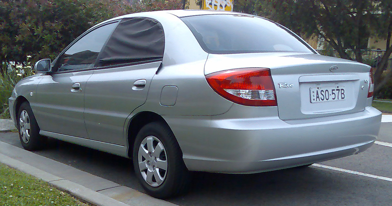 2004 Kia Rio (DC MY04) LS sedan. Photographed in Miranda, New South Wales, Australia.